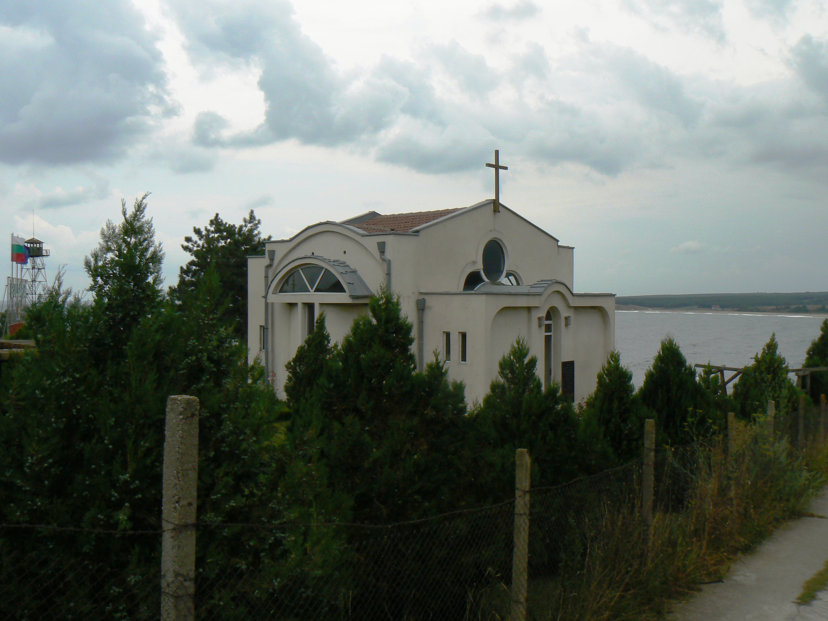 Church "St. John the Baptist" in village Rezovo, Bulgaria